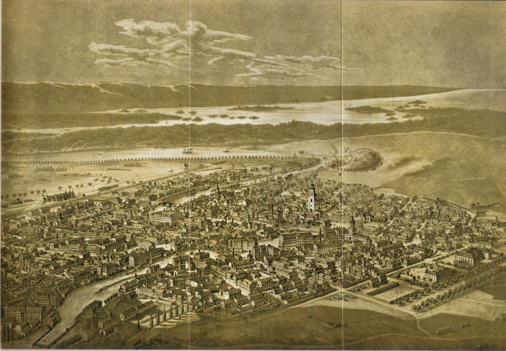 Litography print of Norrköping, Sweden, in 1876